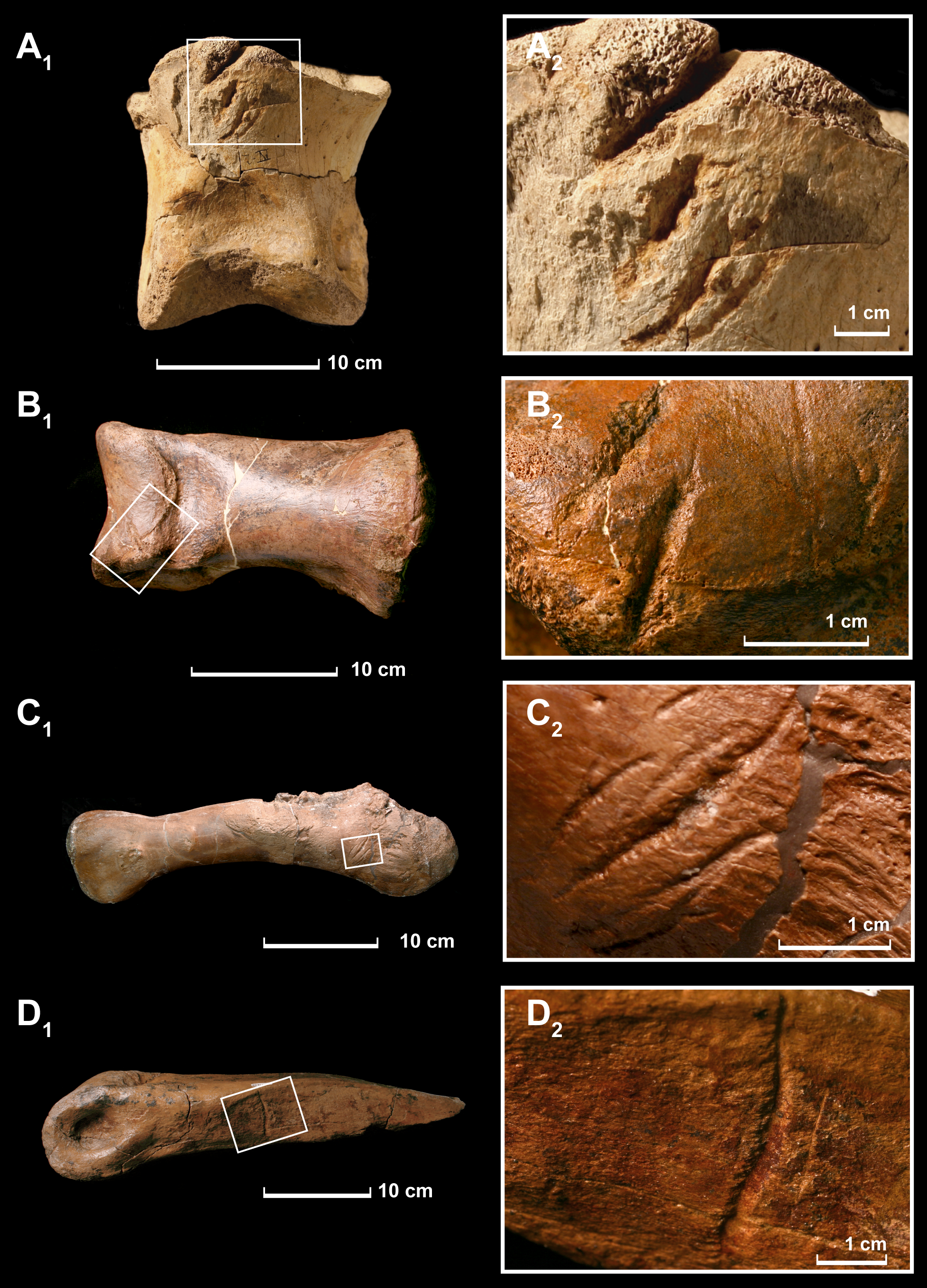 Tyrannosaurus rex bones bearing tooth marks made by Tyrannosaurus rex. A1, A2: UCMP 137538, pedal phalanx in dorsal view. B1, B2: Pedal phalanx, MOR 1126, dorsal view. C1, C2, Humerus of MOR 902 in caudal view. D1, D2 metatarsal III of T. rex MOR 1602, medial view.